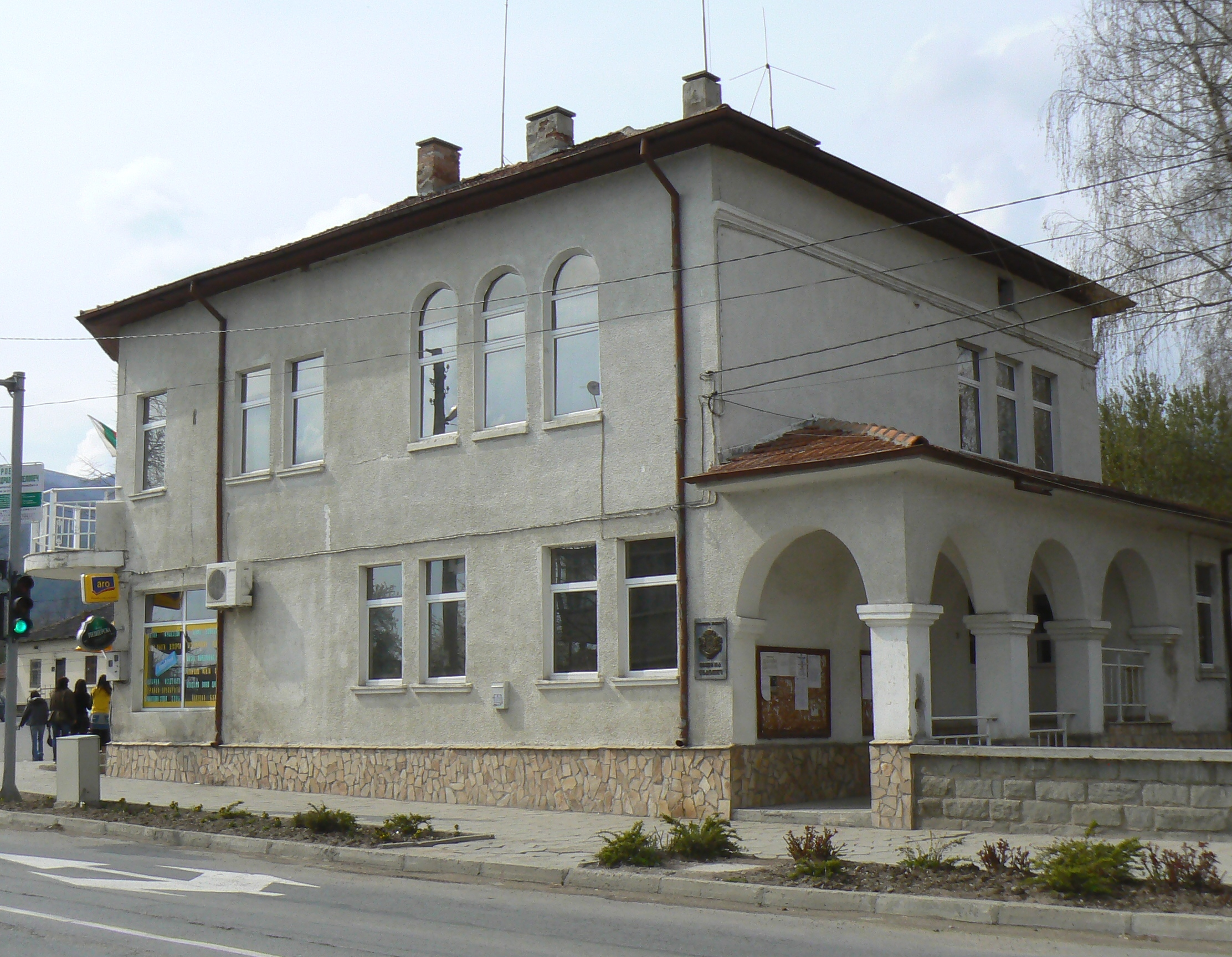 The building of Chelopech municipality, village Chelopech, Bulgaria